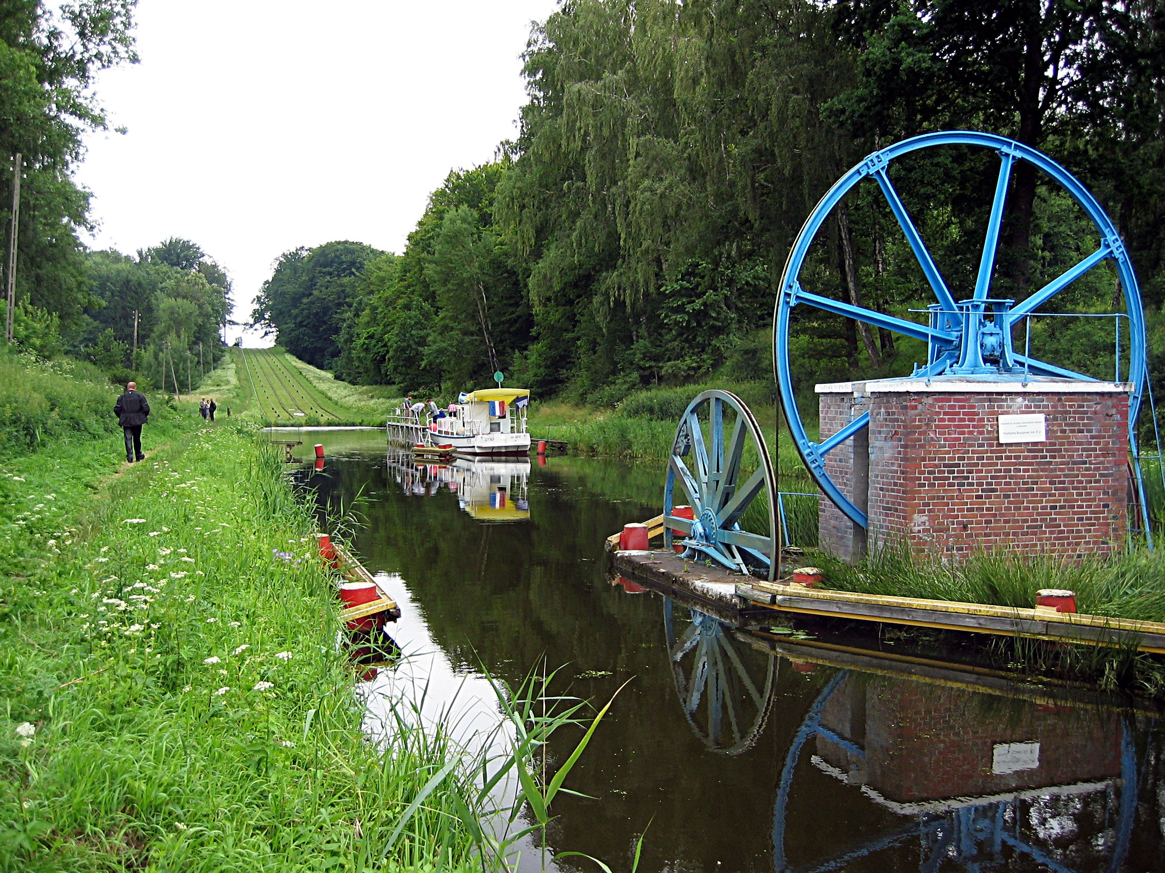 Slip ramp, seen from the lower end